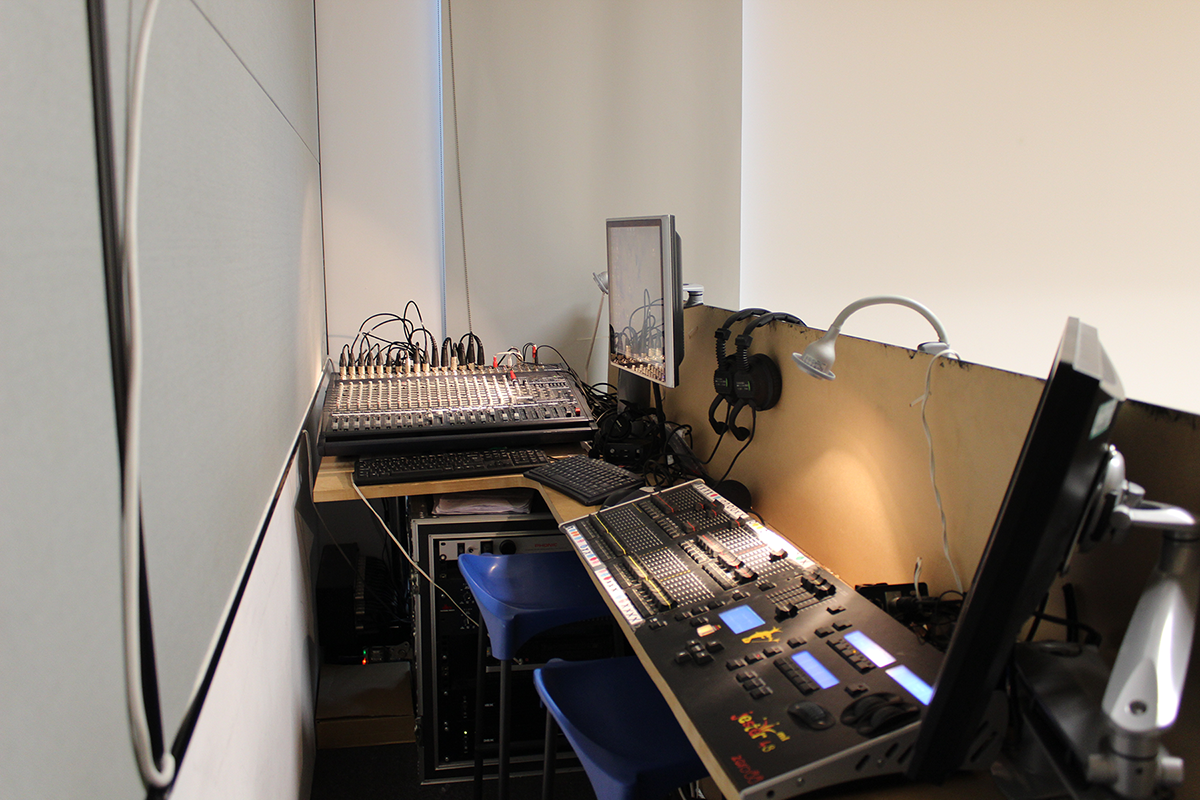 The sound and lighting booth used for shows and productions, situated at the top of the JLV Hub at Cramlington Learning Village.